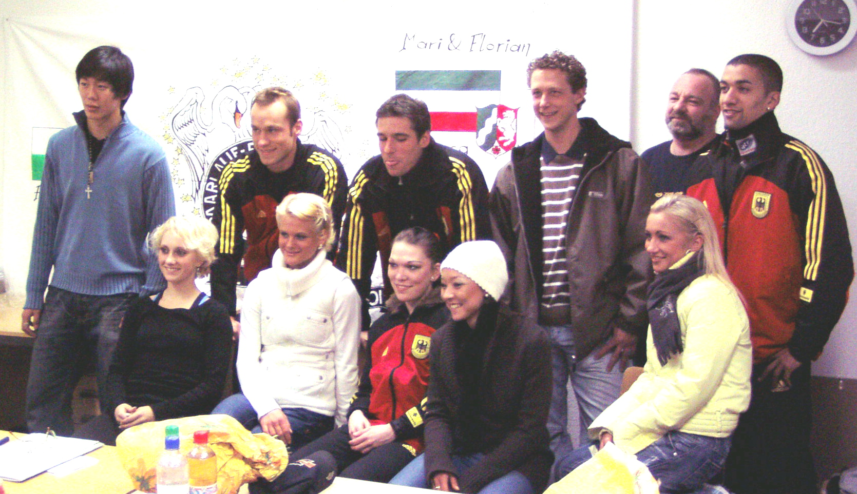 All German figure skating pairs 2006. Ladies from left to right: Maylin Hausch, Rebecca Handke, Eva-Maria Fitze, Mari-Doris Vartmann, Aljona Sawtschenko Men from left to right: Steffen Hörmann, Daniel Wende, Rico Rex, Forian Just, René Müller (Pairskating Fanclub), Robin Szolkowy